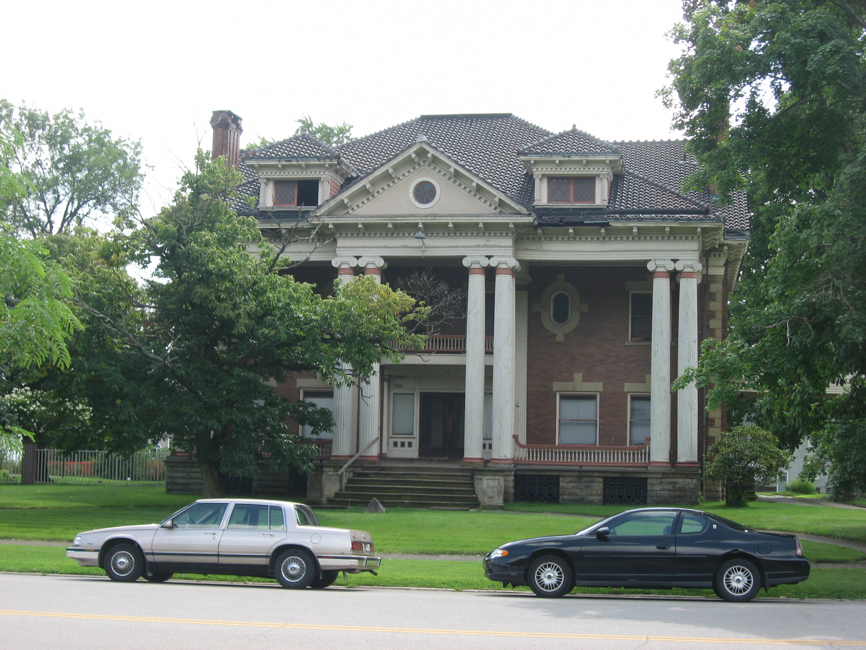 Front of the George J. Renner, Jr. House, located at 277 Park Avenue in Youngstown, Ohio, United States. Built in 1907, it is listed on the National Register of Historic Places, and it is part of a Register-listed historic district, the Wick Park Historic District.